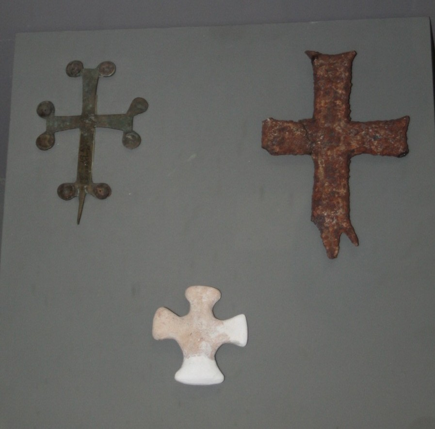 Crosses made of bronze, iron and clay from Mingachevir. IV-VIII cc.